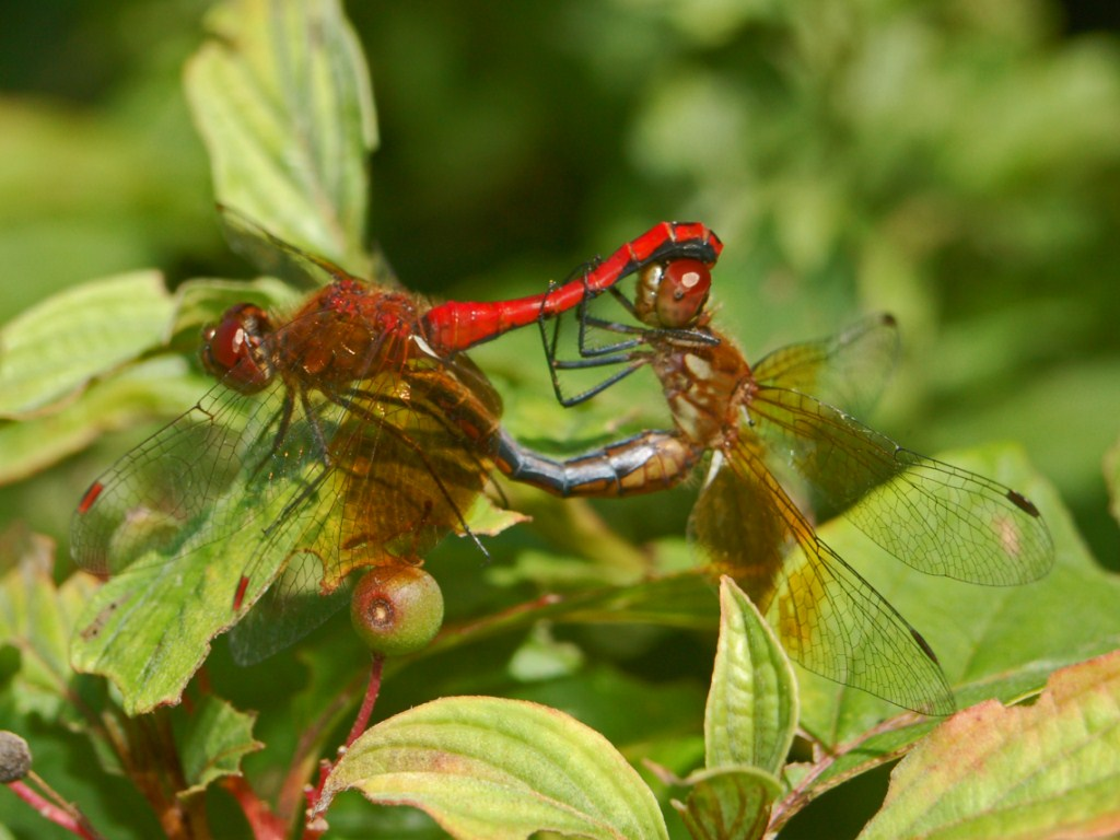 Sympetrum semicinctum, mating pair. Toronto, Canada